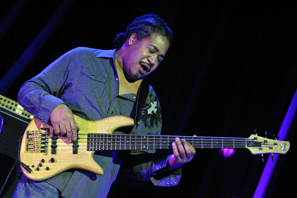 Bass guitar player James Genus performing in Warszawa, Poland in Herbie Hancockós Imagine Project, November 29, 2010.